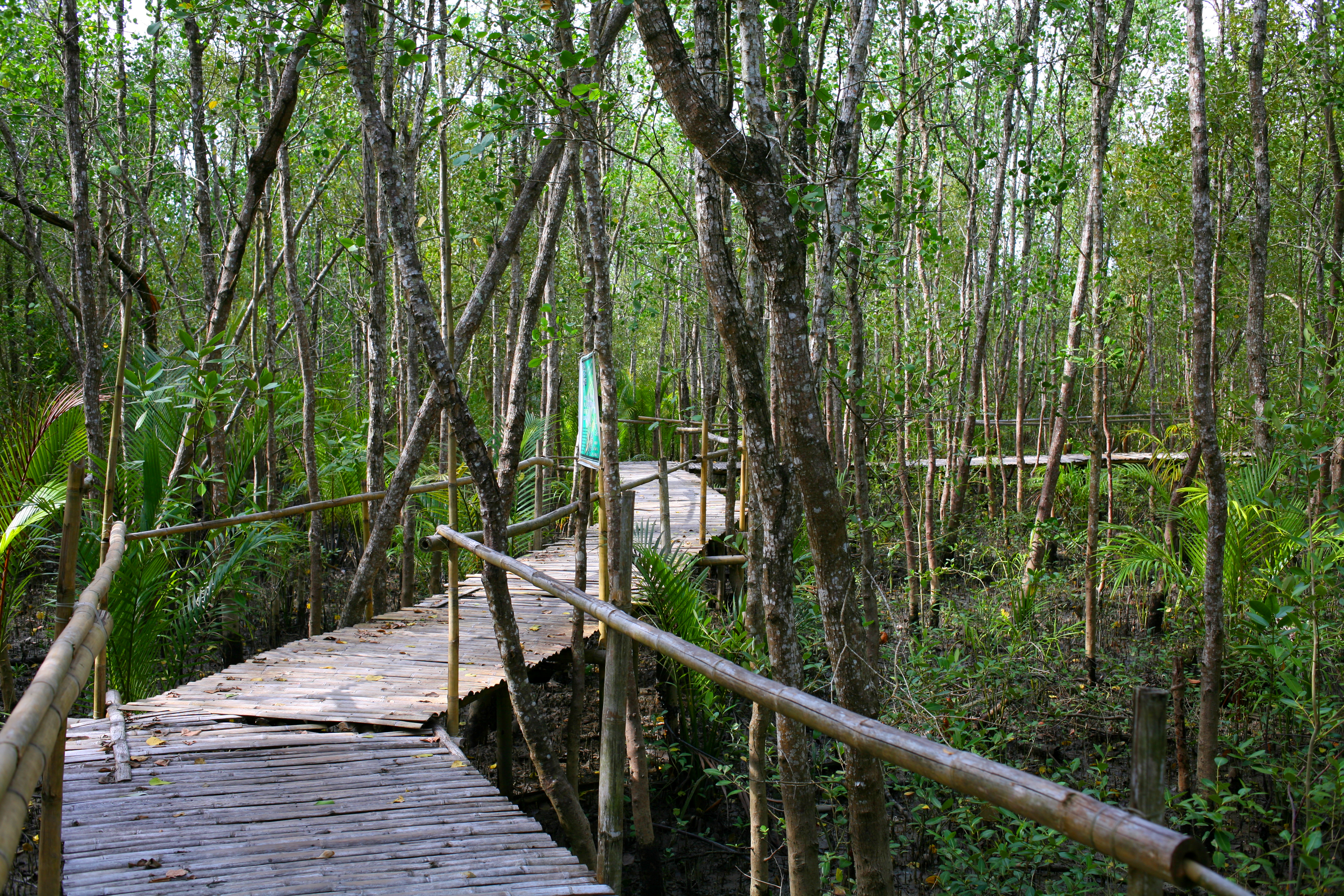 Bambo bridge and mangroves at Bakhawan Eco-park and Research Centre at Kalibo, Philippines